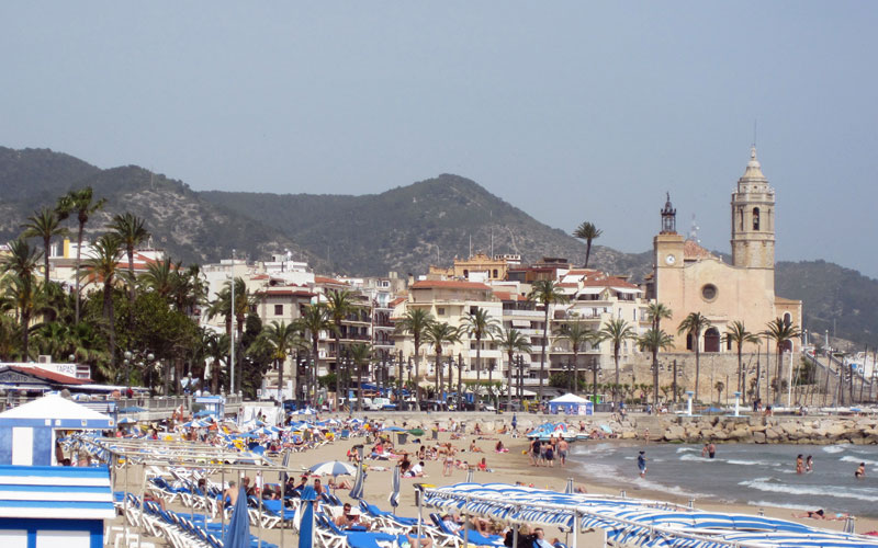 Sitges, Spain. Beach and Church.